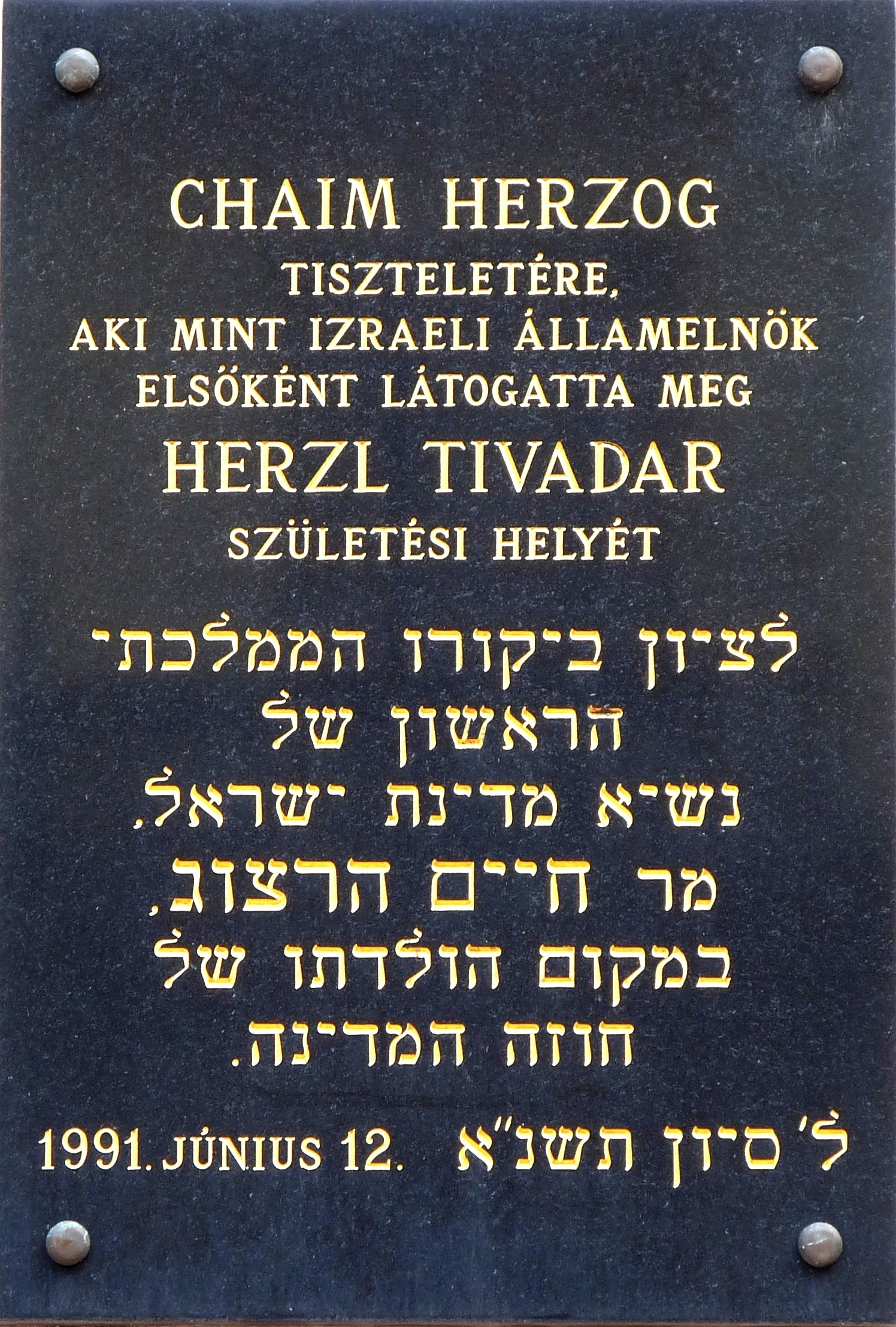 Commemorative plaque to Mr. Chaim Herzog (1918-1997) president of Israel, affixed on the wall of the Dohány Street Synagogue on the occasion of his staying on Juny 12, 1991. (Budapest, District VII, Dohány Street Nr 2).